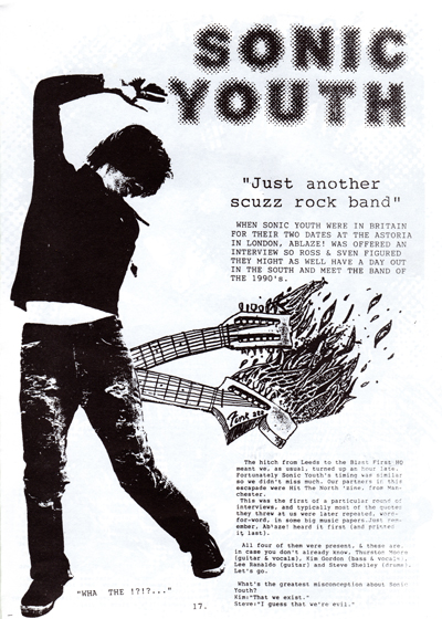 First page of an interview with Sonic Youth, from Ablaze! fanzine issue 5, April 1989.